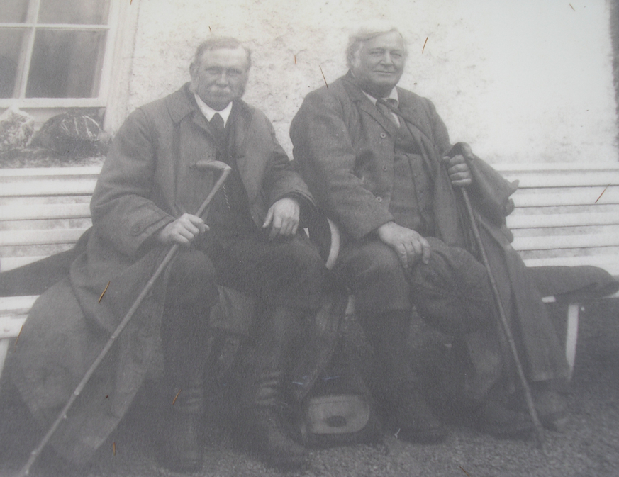 John Horne and Ben Peach outside the Inchnadamph Hotel, Scotland in 1912